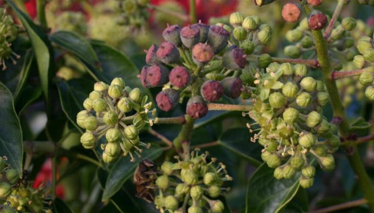 Hedera helix: Flowers